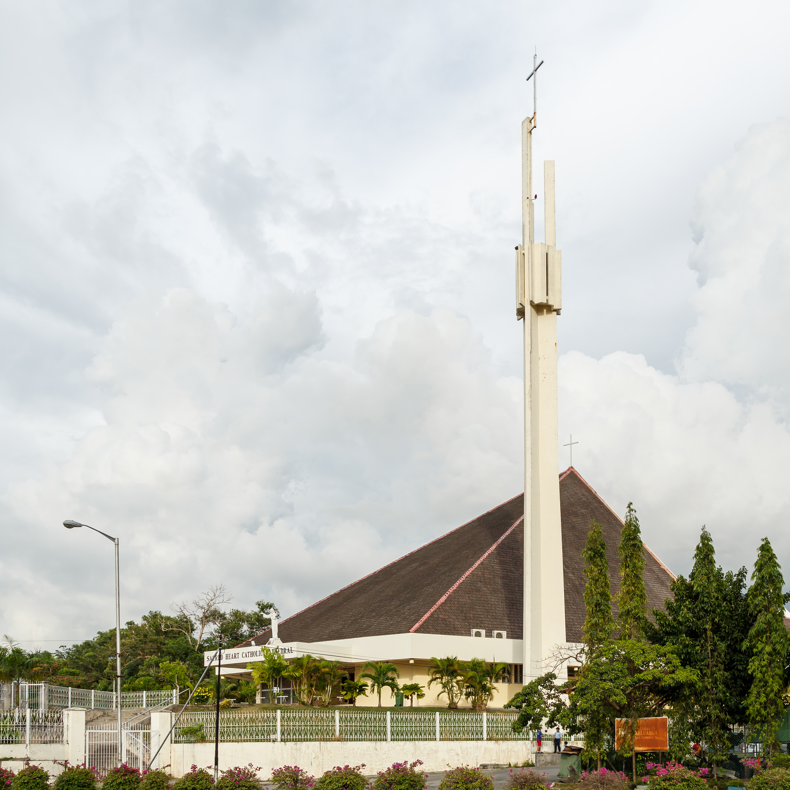 Kota Kinabalu, Sabah: Sacred Heart Catholic Cathedral